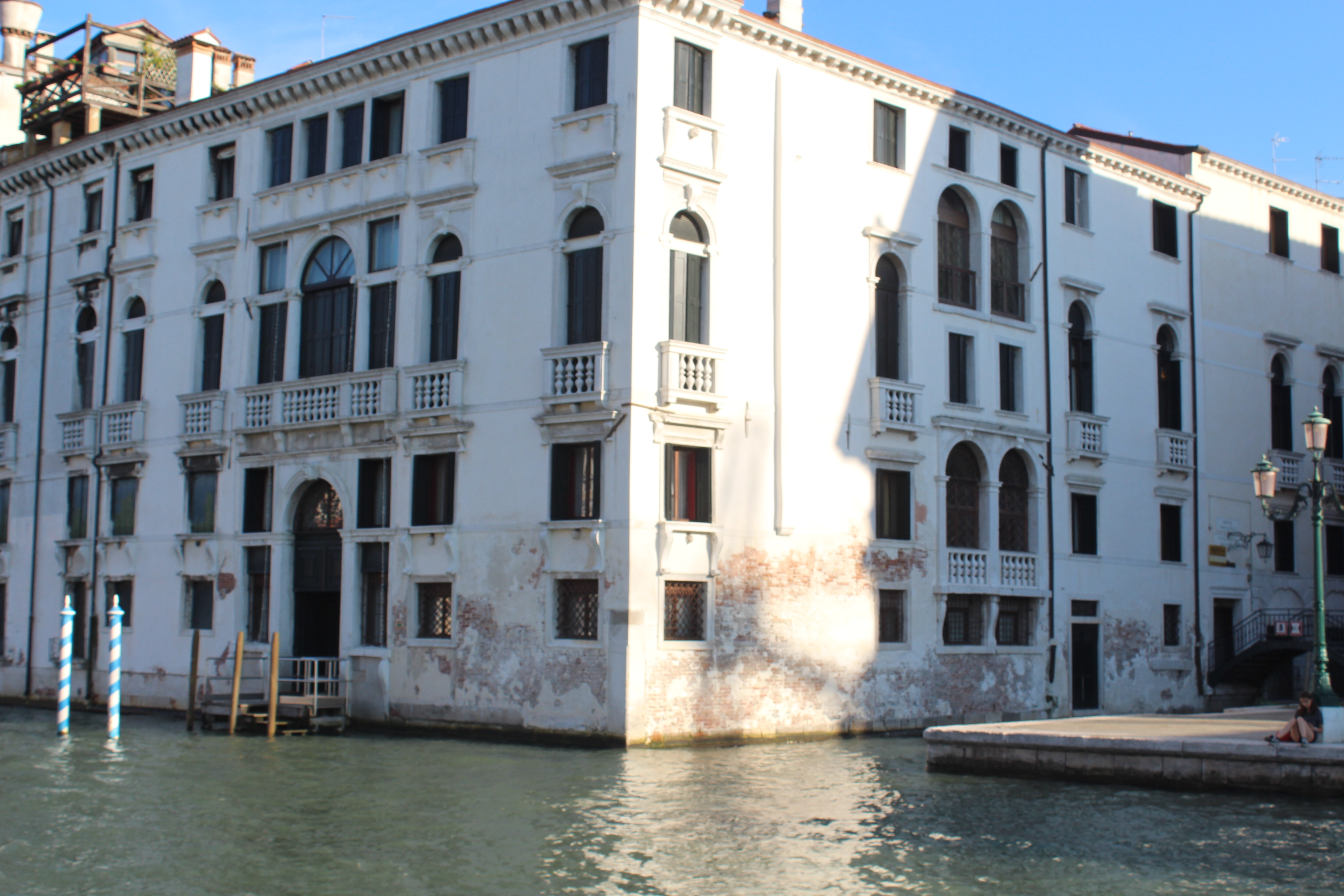 The Grand Canal is a canal in Venice, Italy.